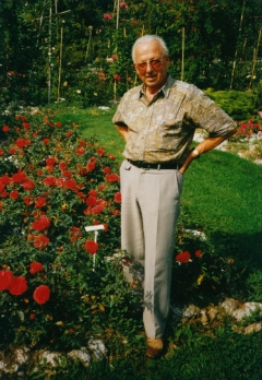 Richard Huber in seinem Schaugarten.